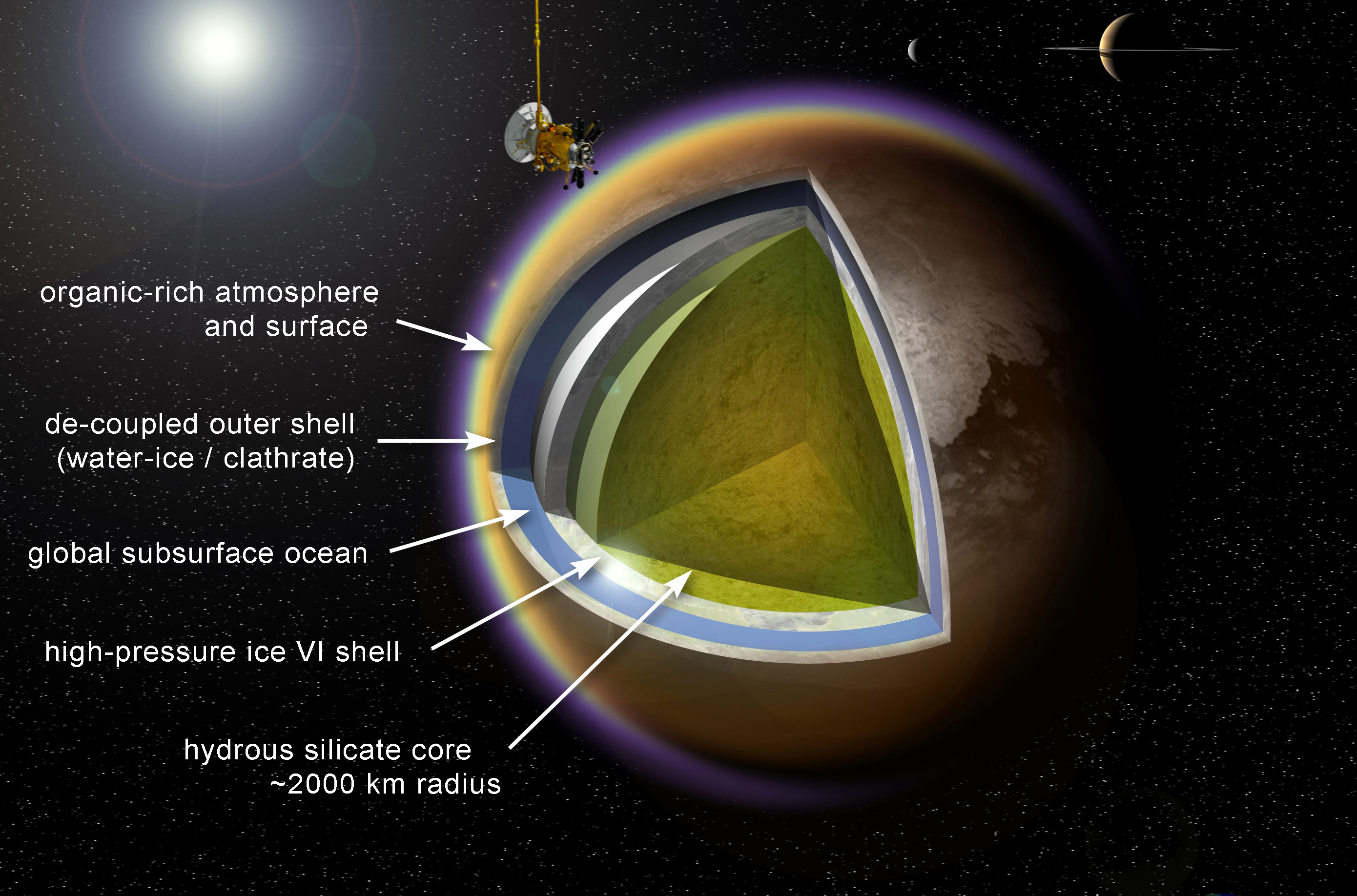 Artist’s concept showing a possible model of Titan’s internal structure